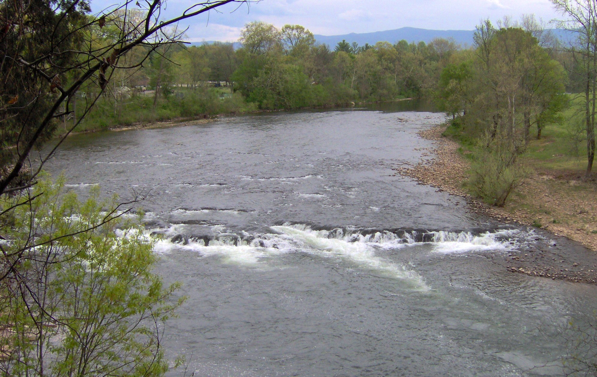 Shoals along the Nolichucky River at Davy Crockett Birthplace State Park in Greene County, Tennessee, in the southeastern United States. Crockett recalled his brothers nearly drowning trying to paddle a canoe over a "fall" in the Nolichucky near their home. The view is from a trail that follows the river bluffs.